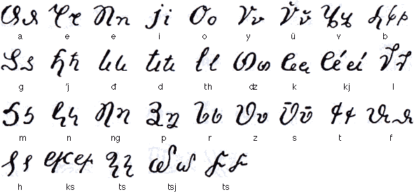 The Beitha Kukju script